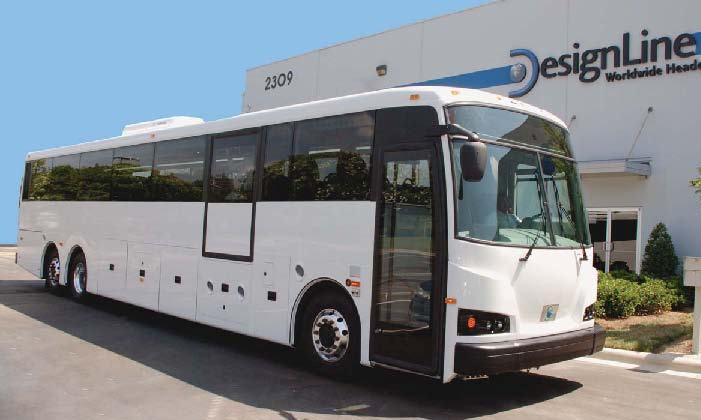 Coach bus in front of DesignLine building